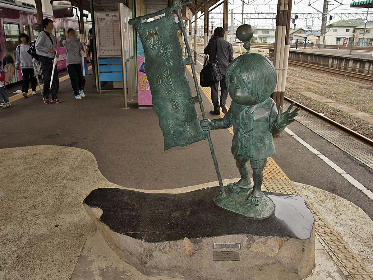 JR Yonago station , JR 米子駅